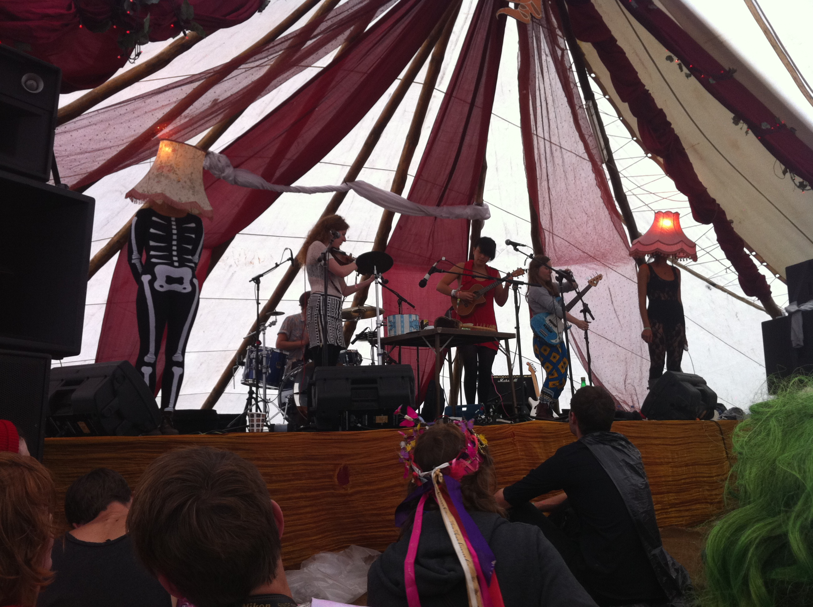 Lulu and the Lampshades, seen performing live at Bestival 2010, held on the Isle of Wight. One of the bulbs exploded and blew the electrics for the whole tent!